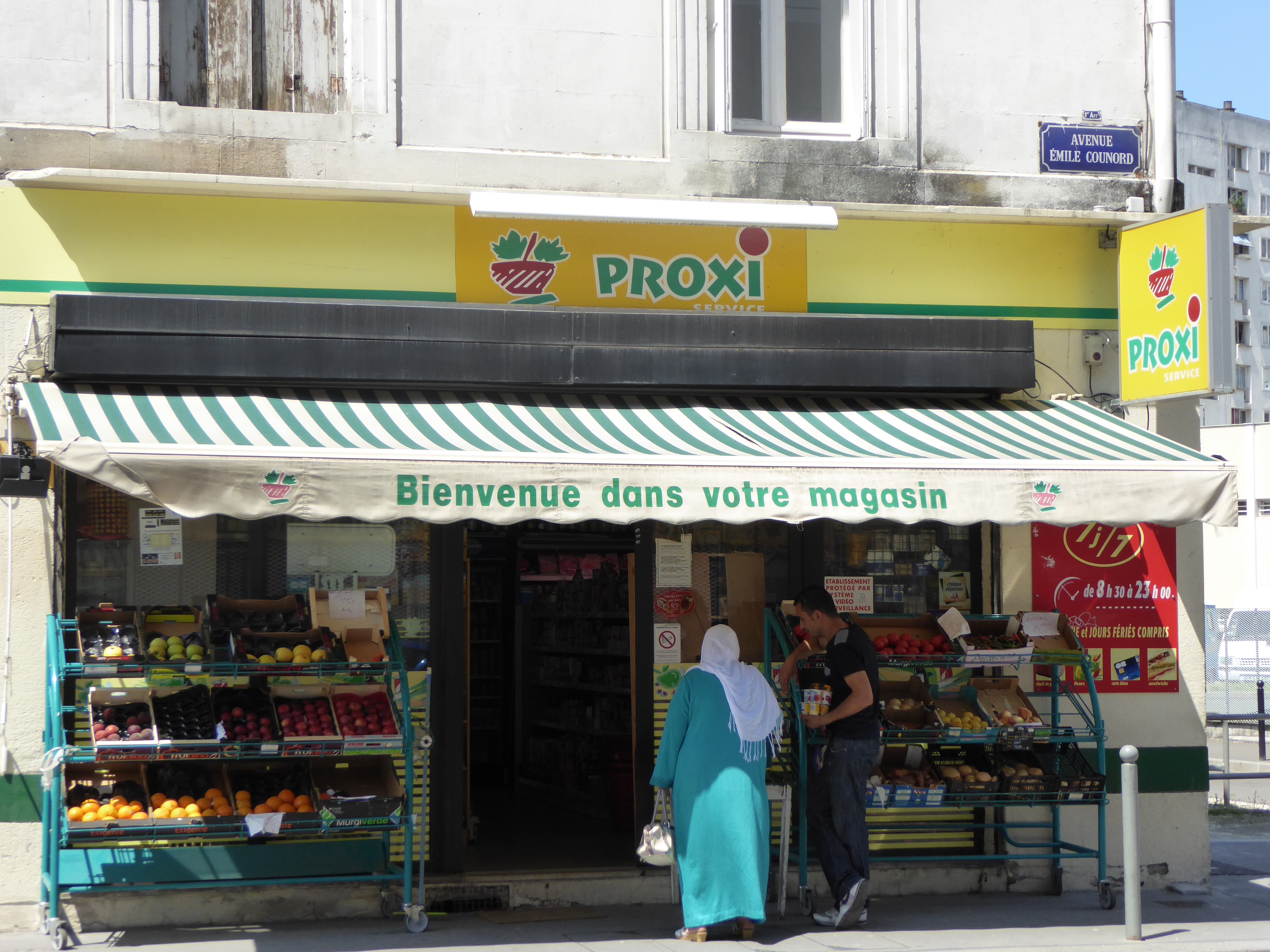 Proxi shop, Avenue Emile Counord, Bordeaux, France, July 2014